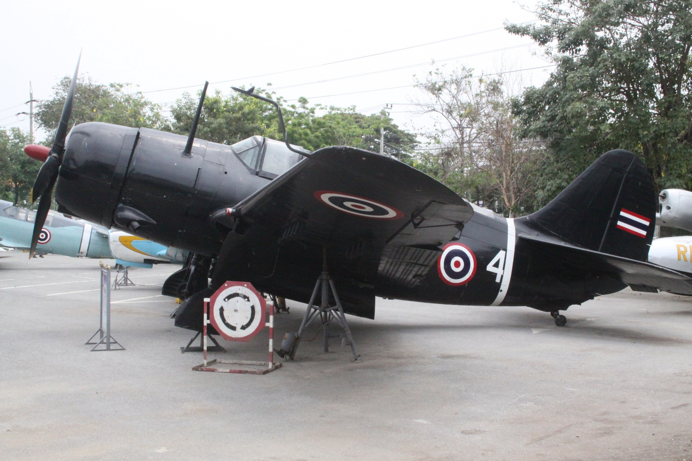 At Don Mueang International Airport